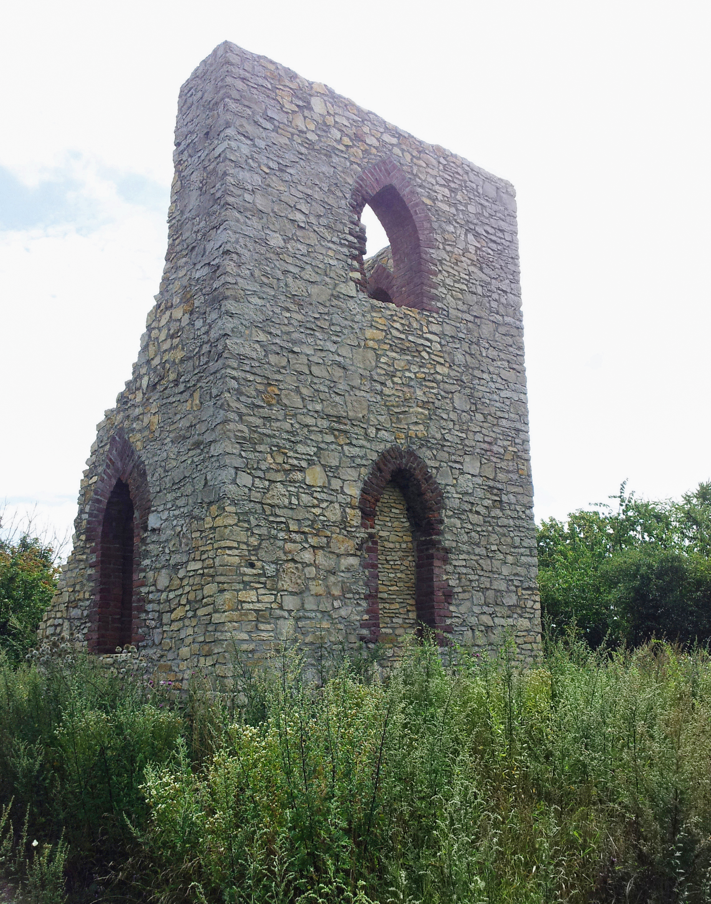 Ruins of Saint Florian's chapel in Rożniątów